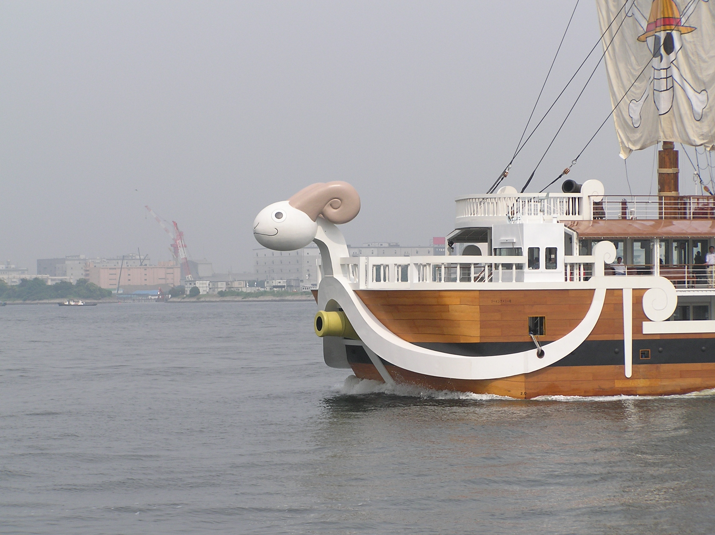 The Going Merry from One Piece